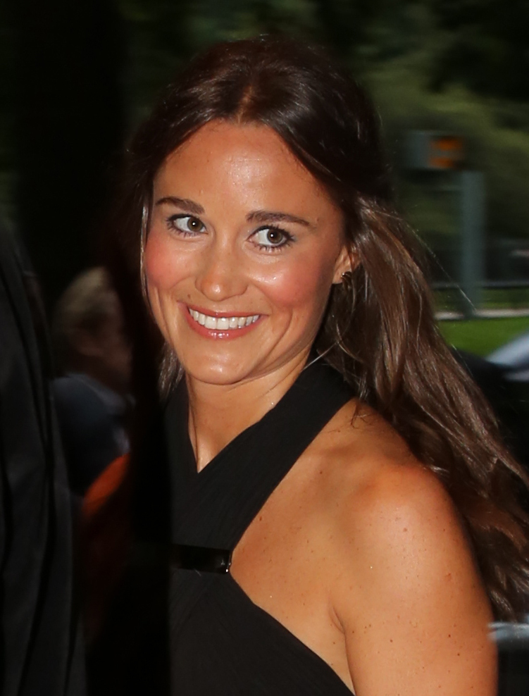 Boodles Boxing Ball 2013